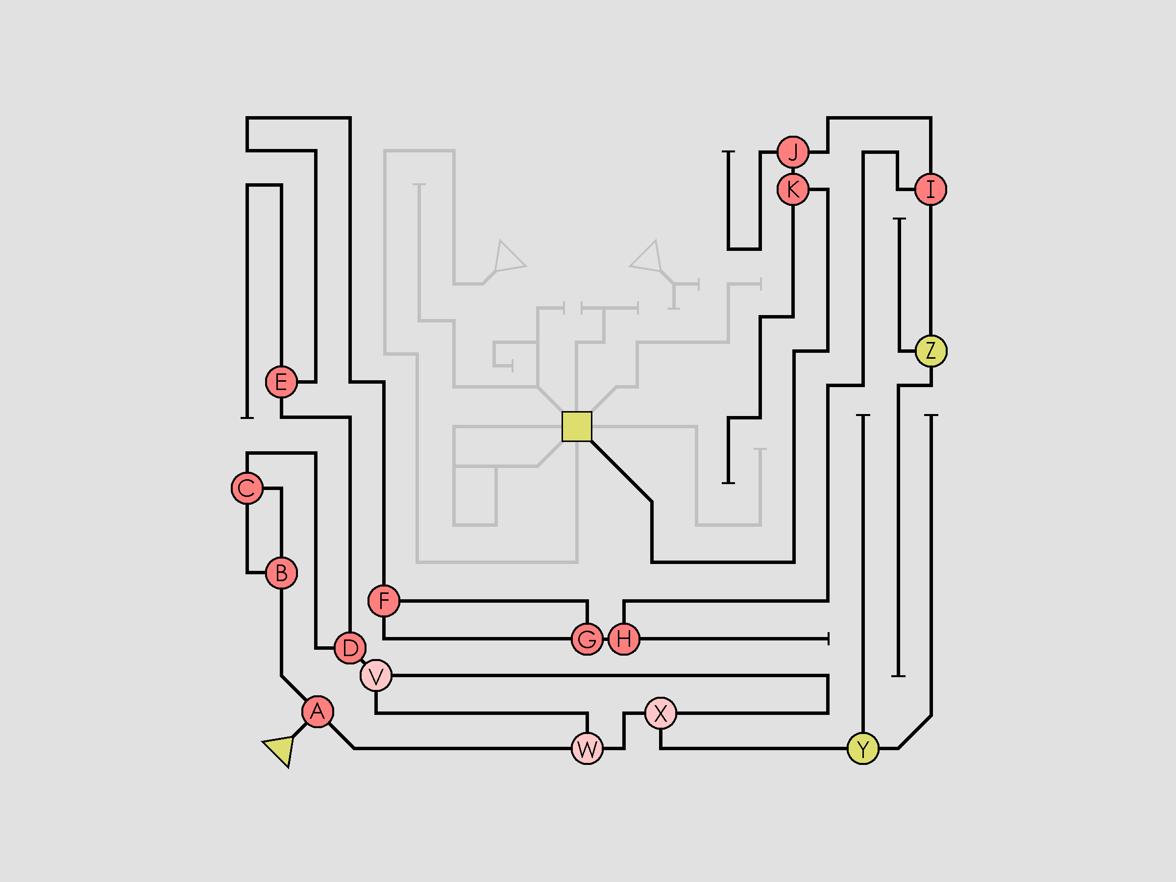 Barcelona Parc del Laberint: system of paths and nodes in the hedge maze.